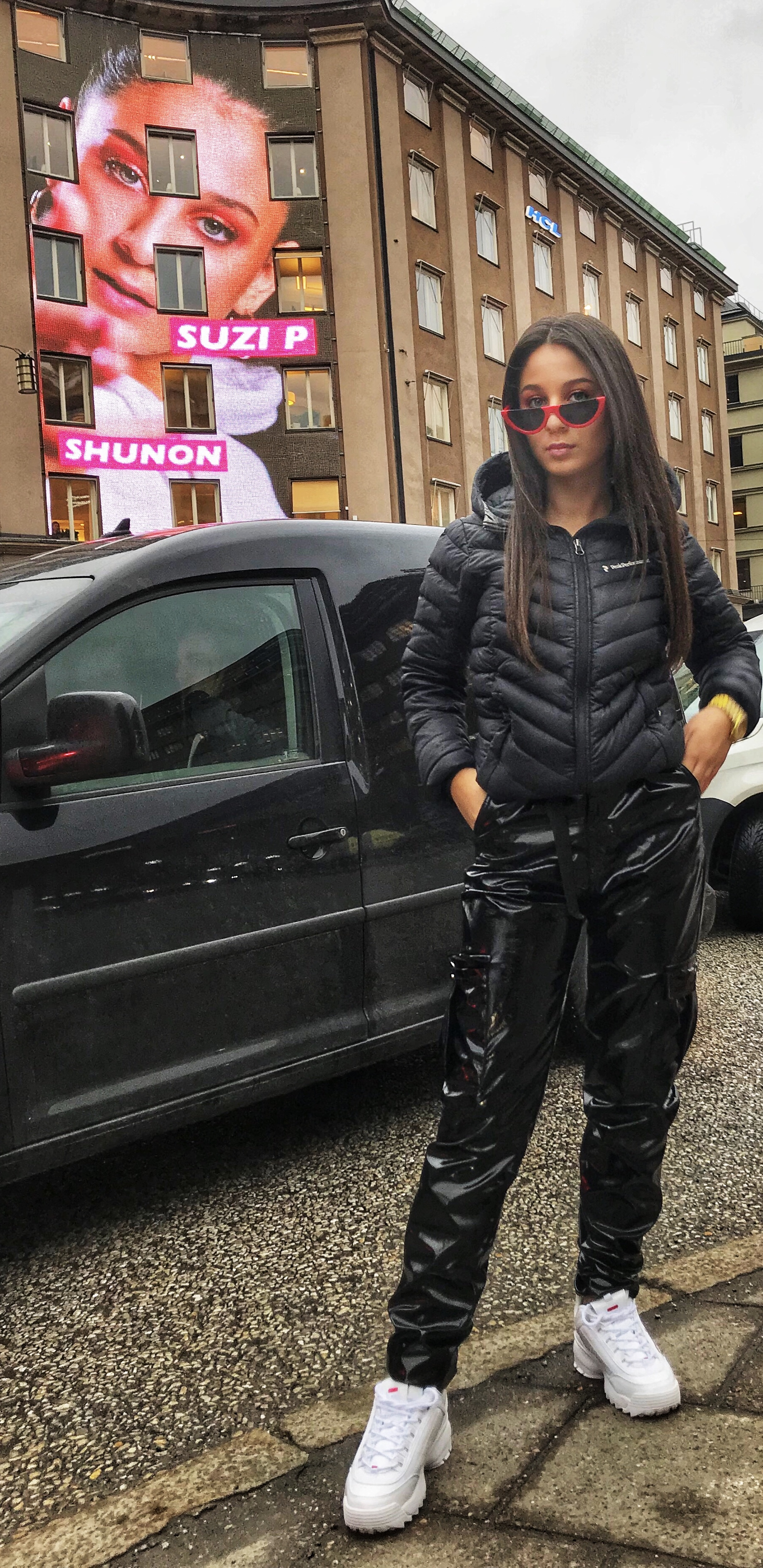 Suzi P in Stockholm by a Billboard for her new single ”Shunon”